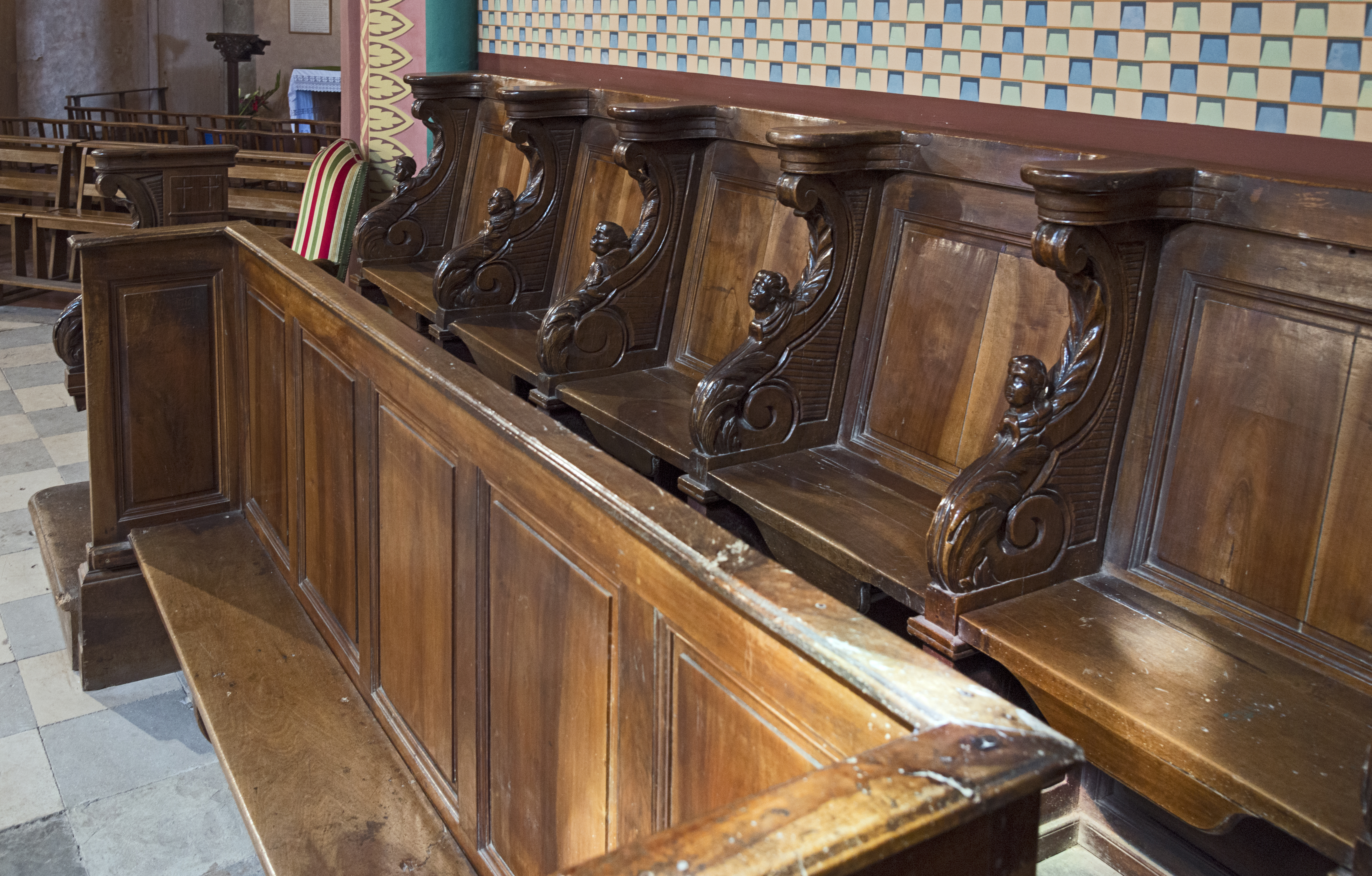 Fronton, Haute-Garonne, France. Interior view of the nave, of the church "Notre Dame de l'Assomption". Choir stall of two series of five stalls from the former Grandselve Abbey.